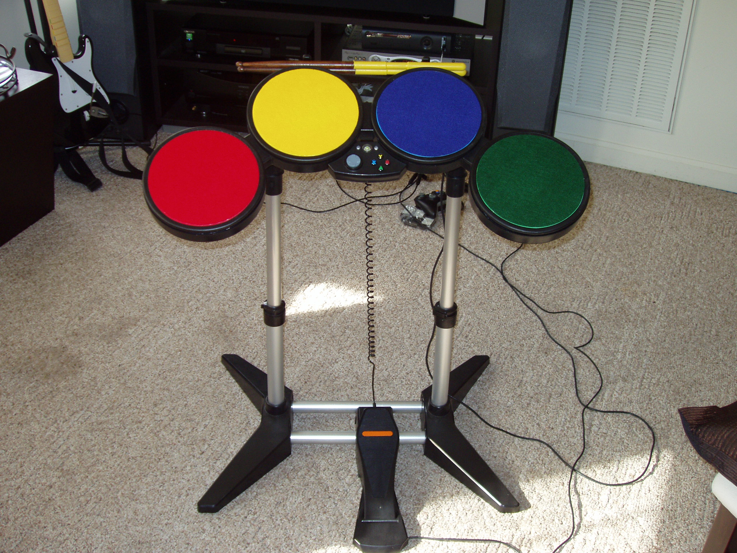 Customized Rock Band drums.